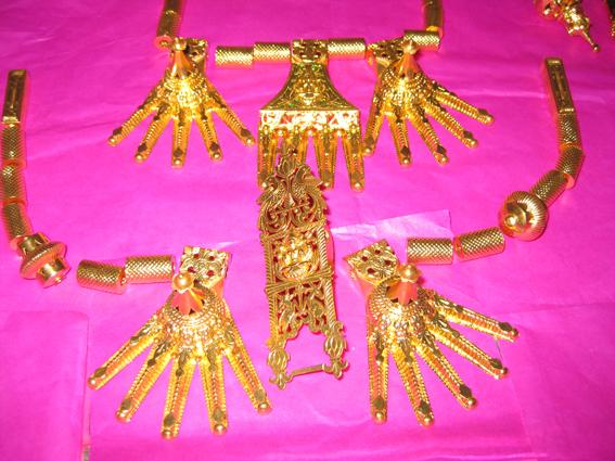 Nagarathar thaali